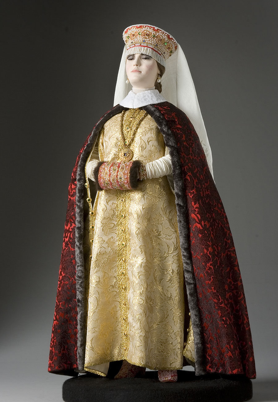 Historical Mixed Media Figure of Anastasia Romanova produced by artist/historian George S. Stuart and photographed by Peter d'Aprix. This image, from the George S. Stuart Gallery of Historical Figures® archive ( is provided for all uses with appropriate attribution. Any derivatives must be shared in the same manner. Contributor mharrsch is webmaster for the gallery site.